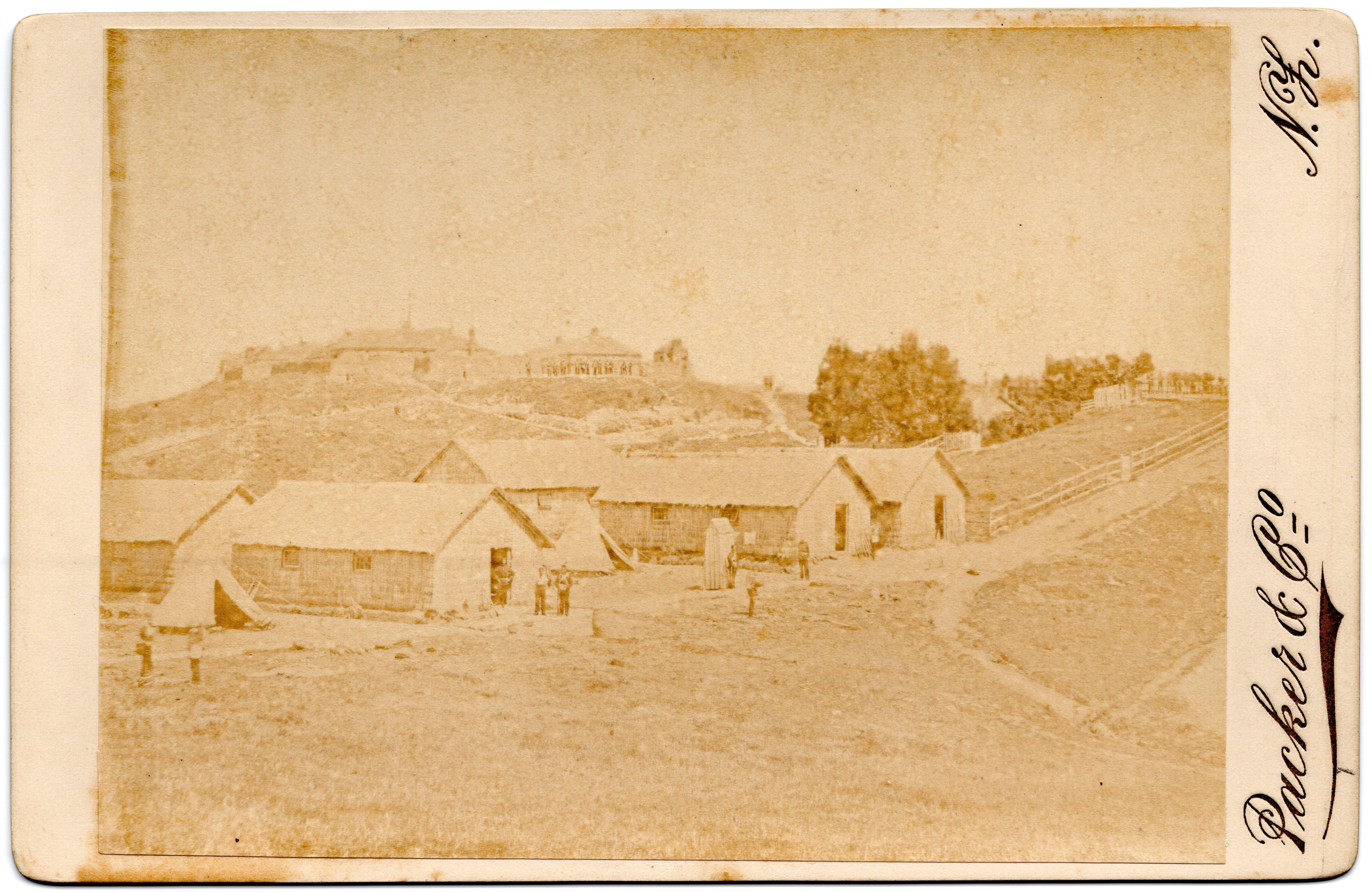 Napier Military Barracks about year 1864